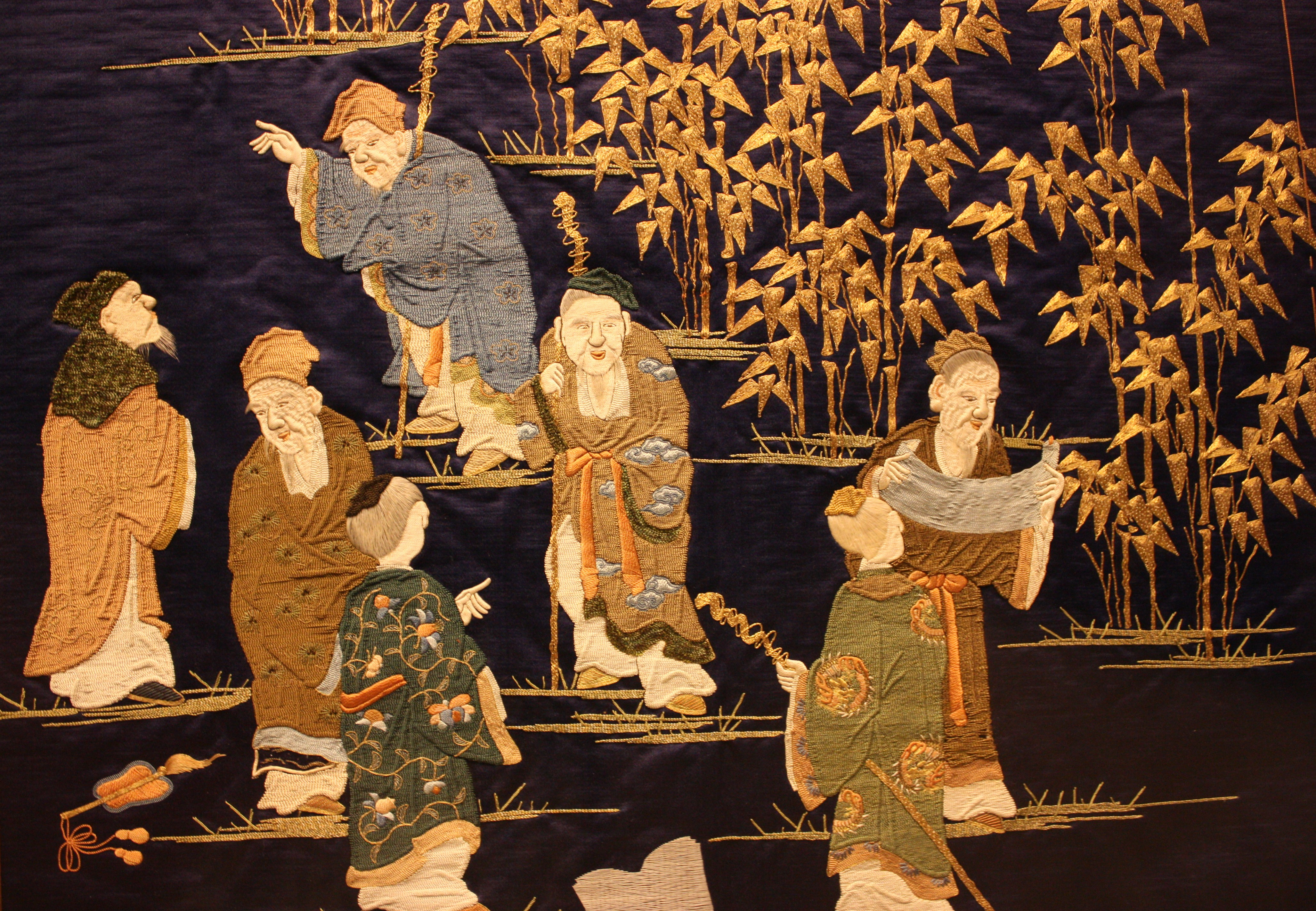 Gift cover Dark blue satin weave silk with embroidery The Seven Sages of the Bamboo Grove 1860-1880 The Seven Sages represent a group of third century Chinese scholars who met in a bamboo grove to relax, drink and discuss Taoist philosophy. In Japan they are popularly equated with the Seven Gods of Good Fortune. T. 197-1963 Wikipedia Loves Art at the Victoria and Albert Museum This photo of item # [1] at the Victoria and Albert Museum was contributed under the team name "va_va_val" as part of the Wikipedia Loves Art project in February 2009. Victoria and Albert Museum The original photograph on Flickr was taken by Val_McG—please add a comment to the original Flickr page whenever a use has been made on Wikipedia or another project. Project galleries on Flickr: this institution, this team